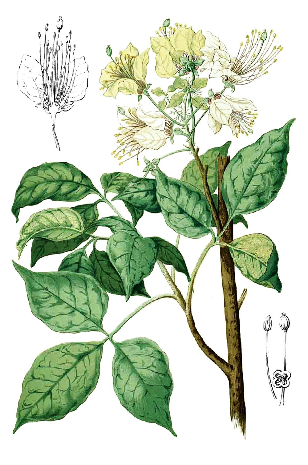 Plate from book